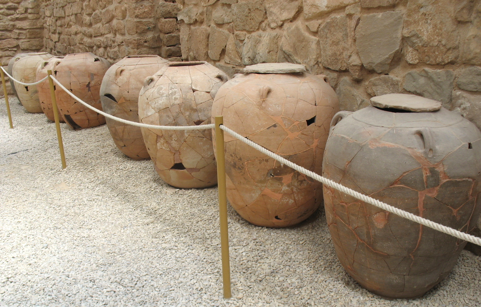 Roman villa of Las Musas, Arellano, Navarre, Spain